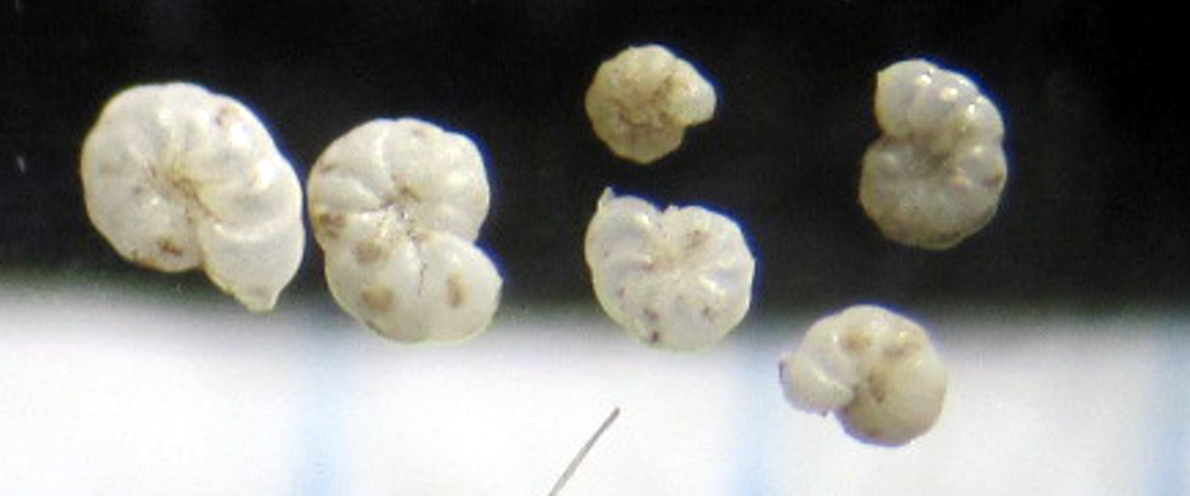 Haynesina germanica, a benthic foram - sub-fossil from Walpole, Somerset, UK